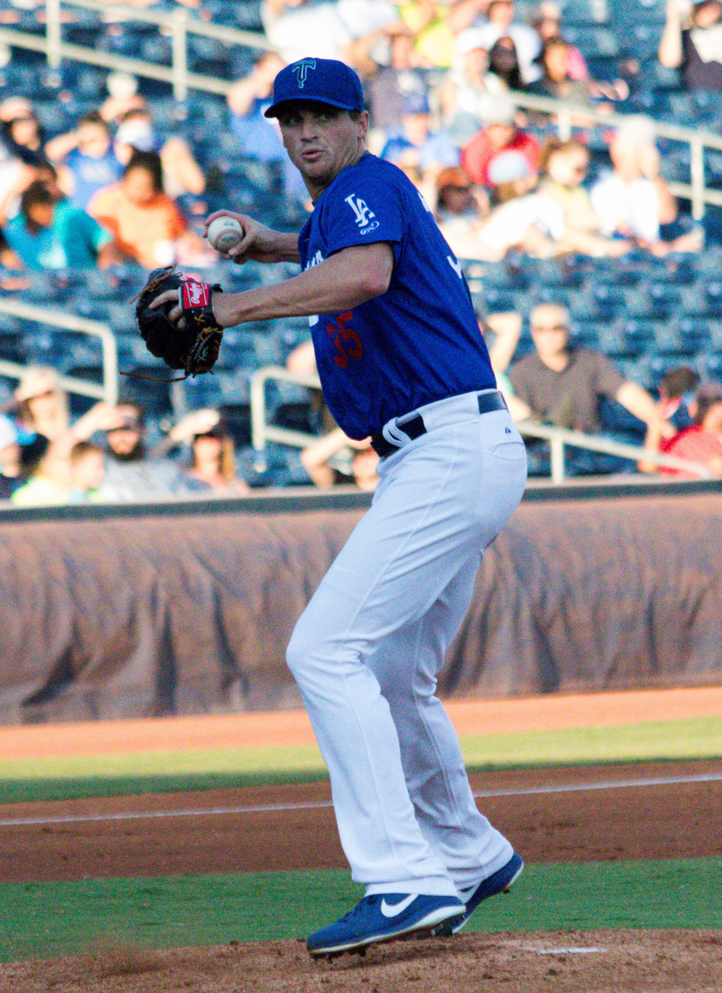 Seth Frankoff on the mound for the Tulsa Drillers in 2016